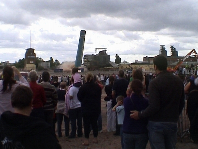 Going down fast The end of the Goodyear chimney captured on video.